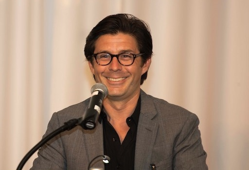 Actor Rick Gomez presenting an award at CayFilm 2015